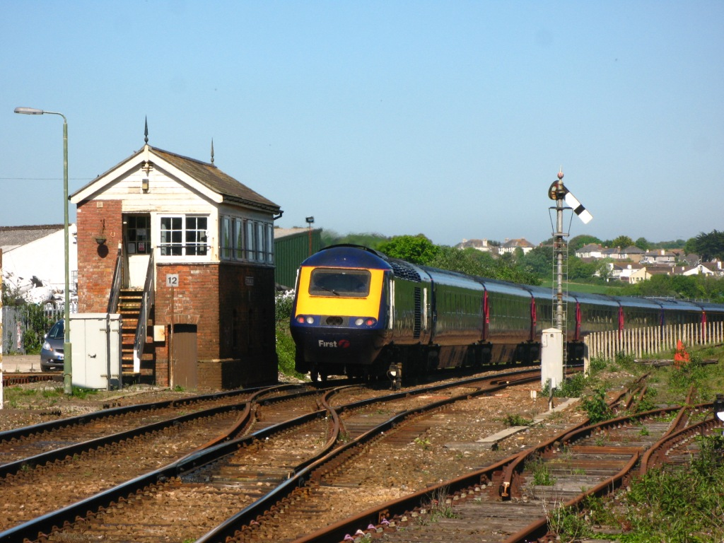 A train from Penzance to London Paddington passes the signal box at St Erth, Cornwall, as it leaves the station and drops down the gradient towards the Hayle Estuary. The rear power car is 43086.